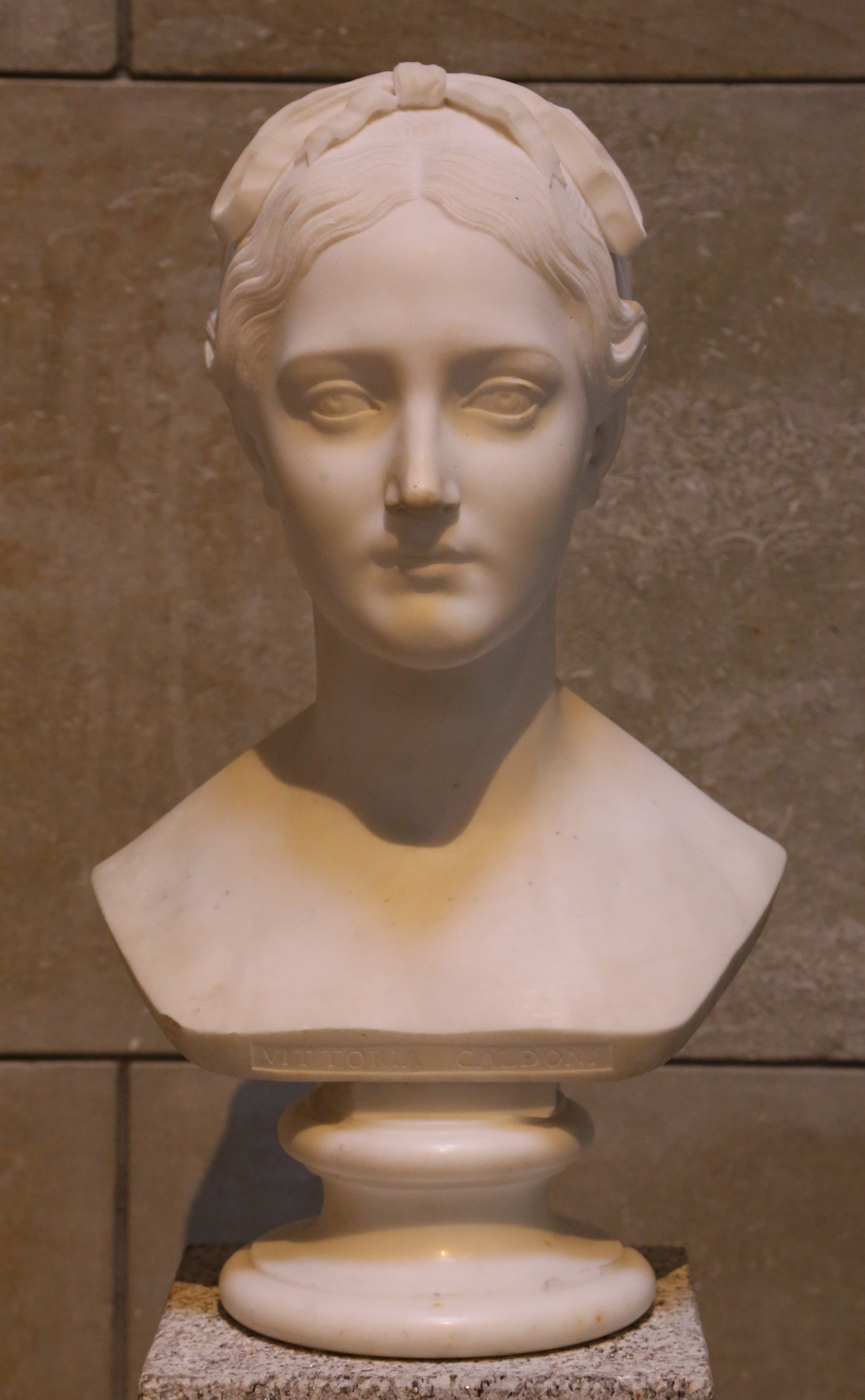 Rudolf Schadow: Vittoria Caldoni, 1821 Neue Pinakothek Native nameNeue PinakothekLocationMunichCoordinates48° 08′ 59″ N, 11° 34′ 16″ E Established1853Website